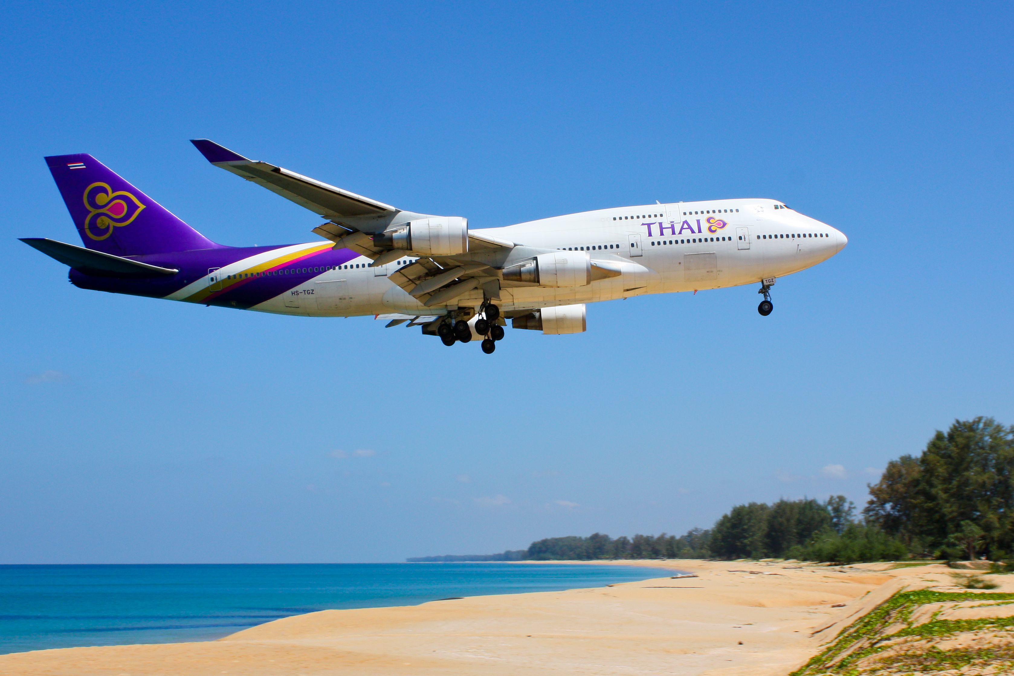 Thai Airways B747-400 HS-TGZ